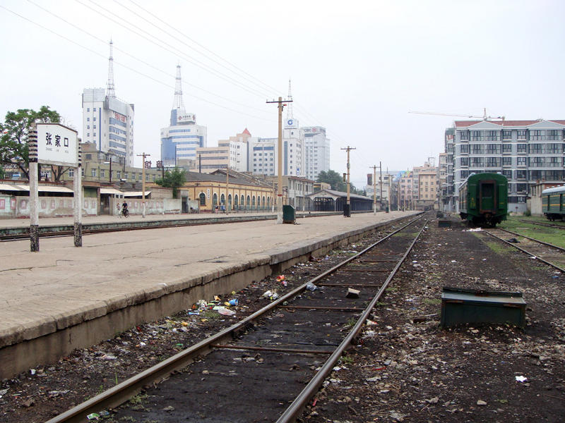 Zhangjiakou Railway Station